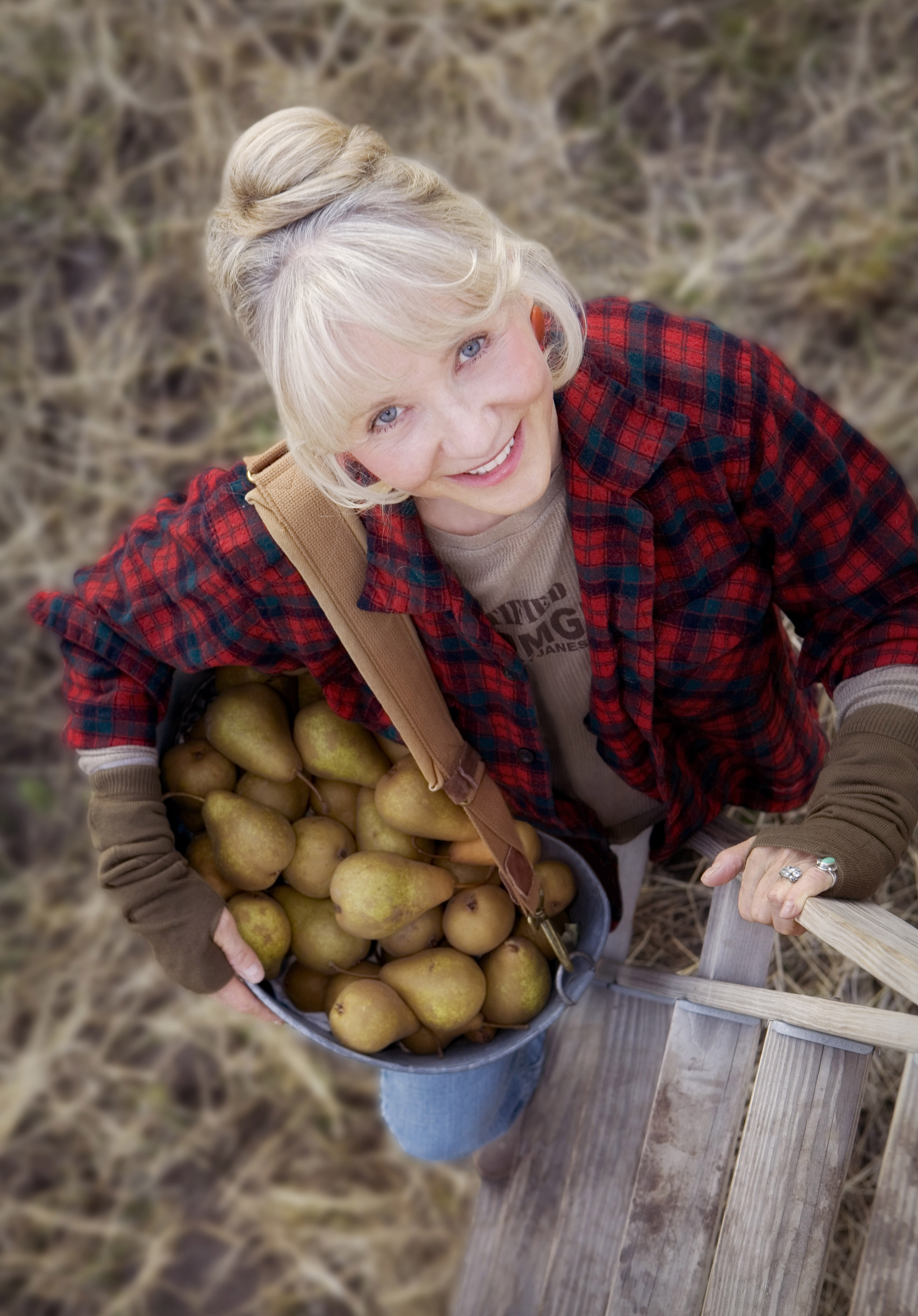 Cover shot of MaryJane Butters of MaryJanesFarm Magazine Oct/Nov 2011, 'Imagine a Place' issue.